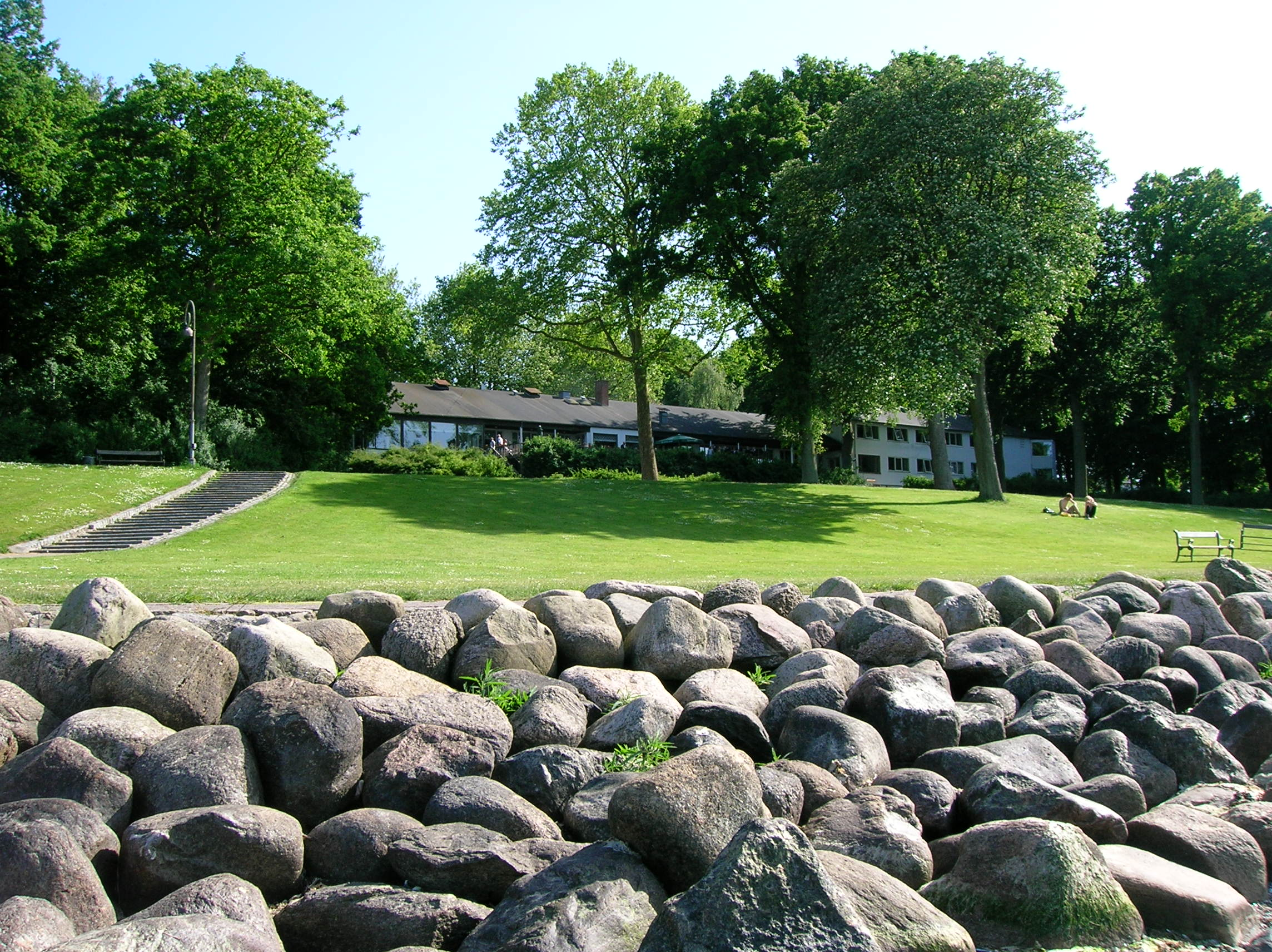 Hotel Strandparken, Holbæk, Denmark. Granite boulders in foreground